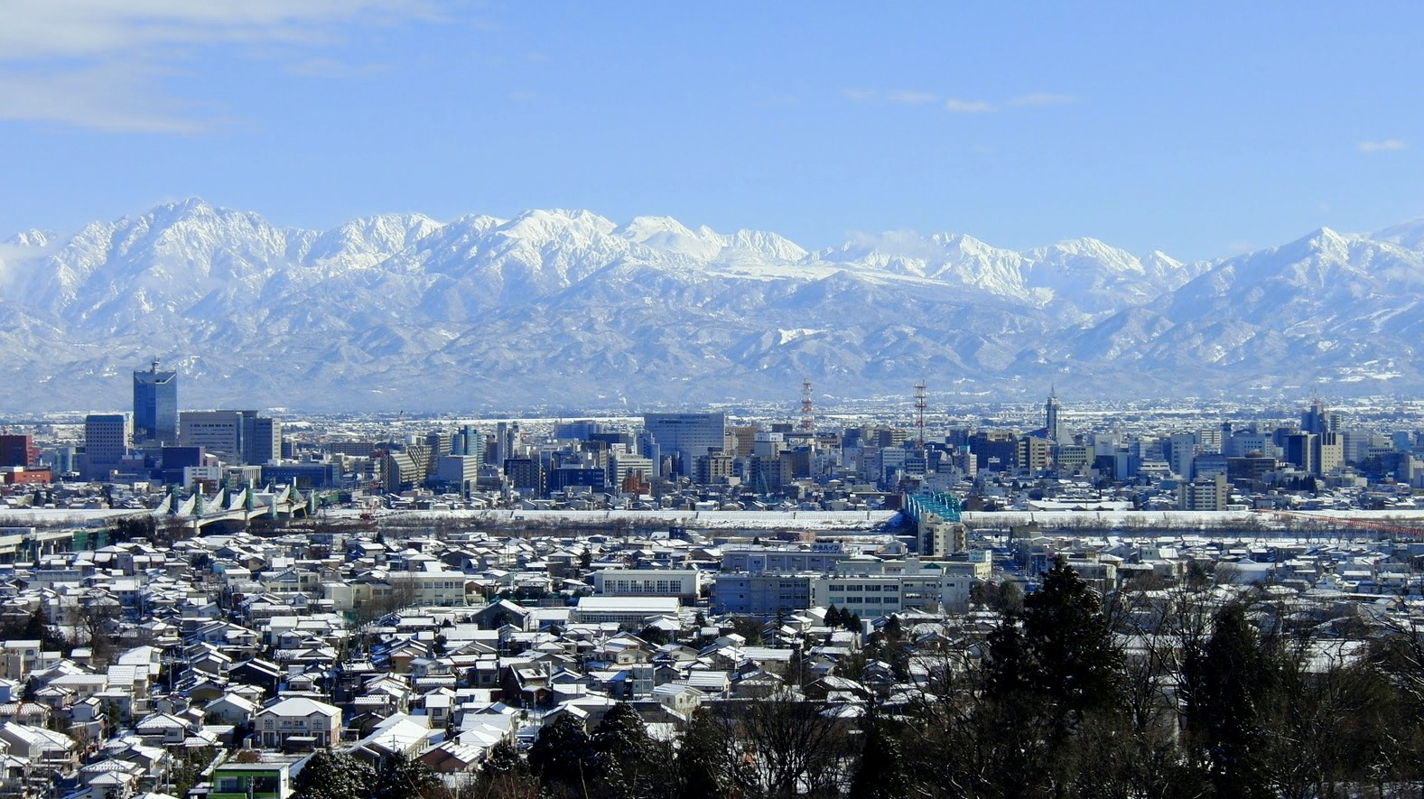 Cityscape of Toyama and Tateyama Mountains seen from Kureha Hill